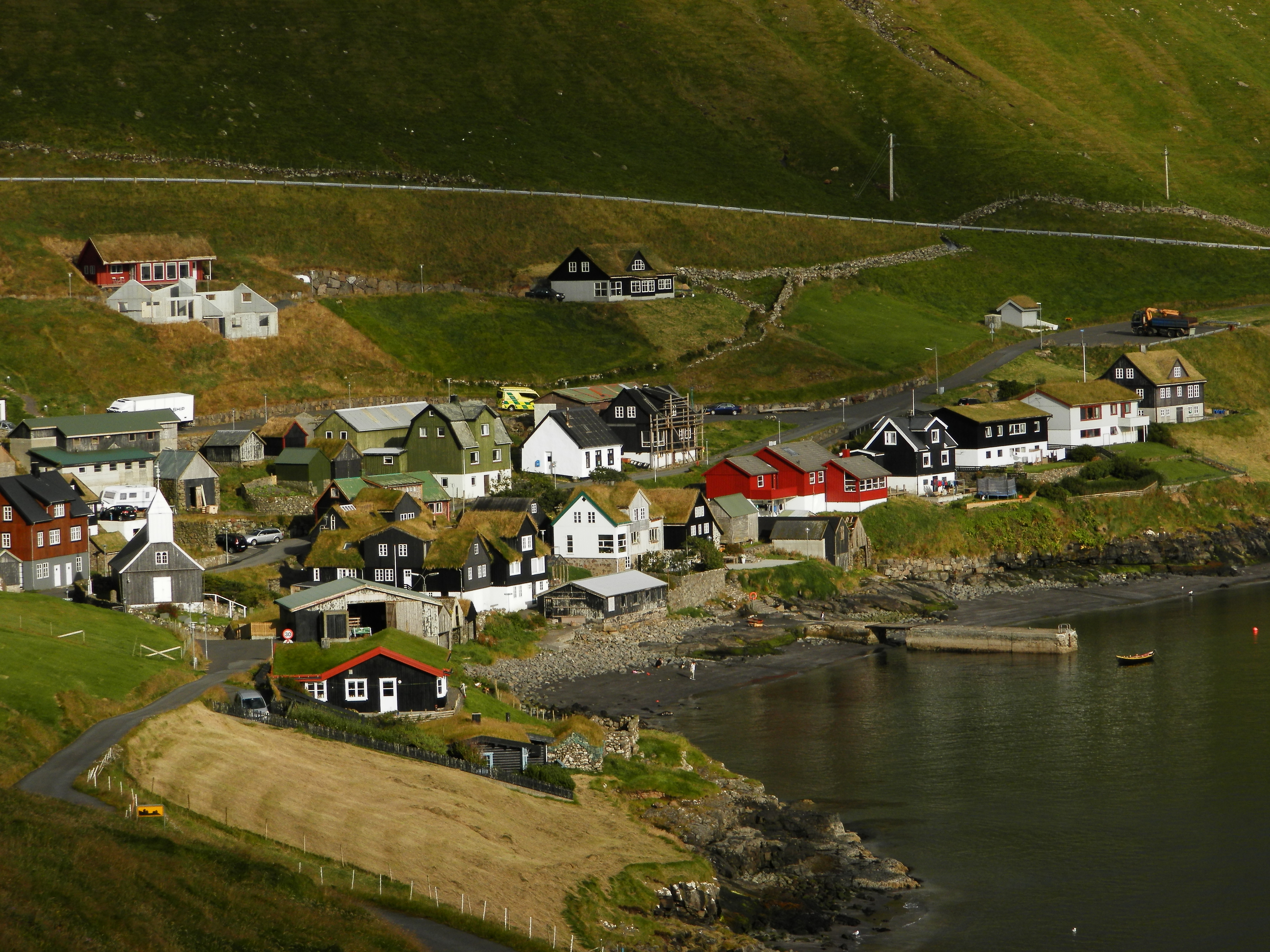 Bøur is a small village on the island of Vágar in the Faroe Islands.